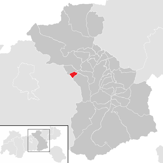 District Schwaz